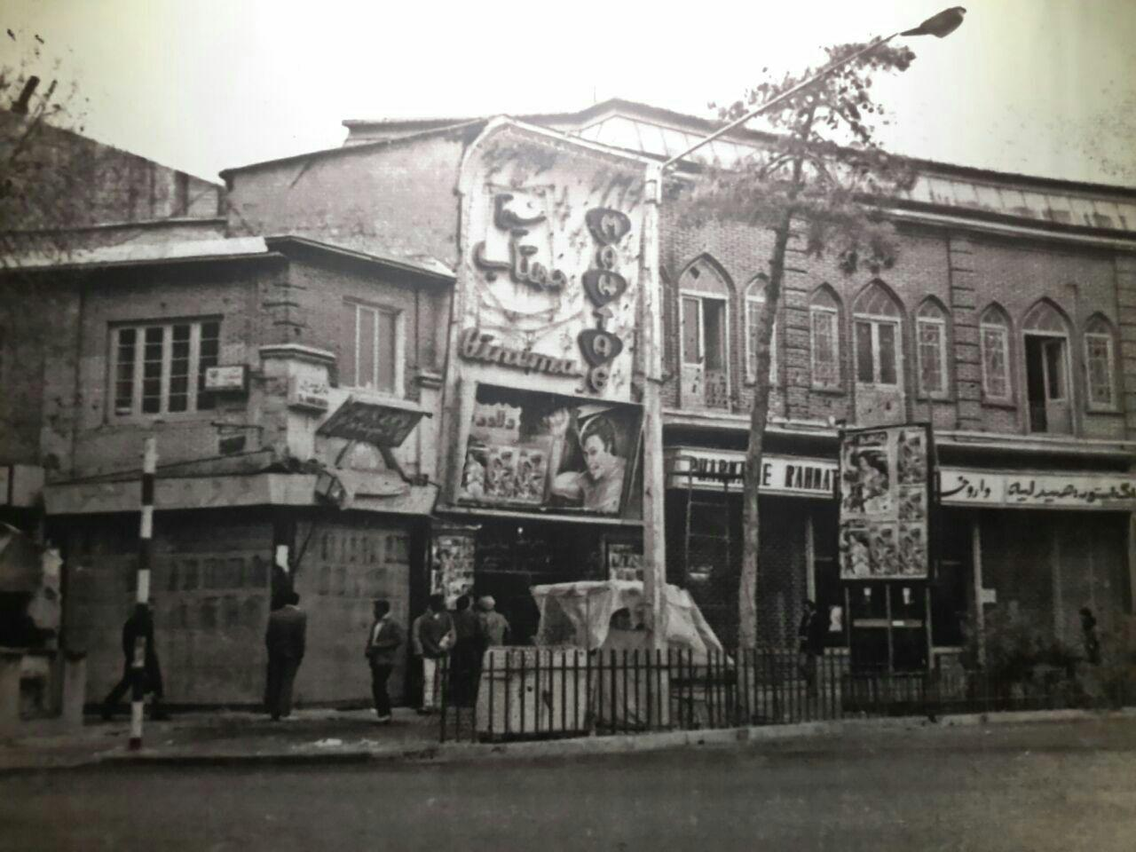 cinema in shiraz